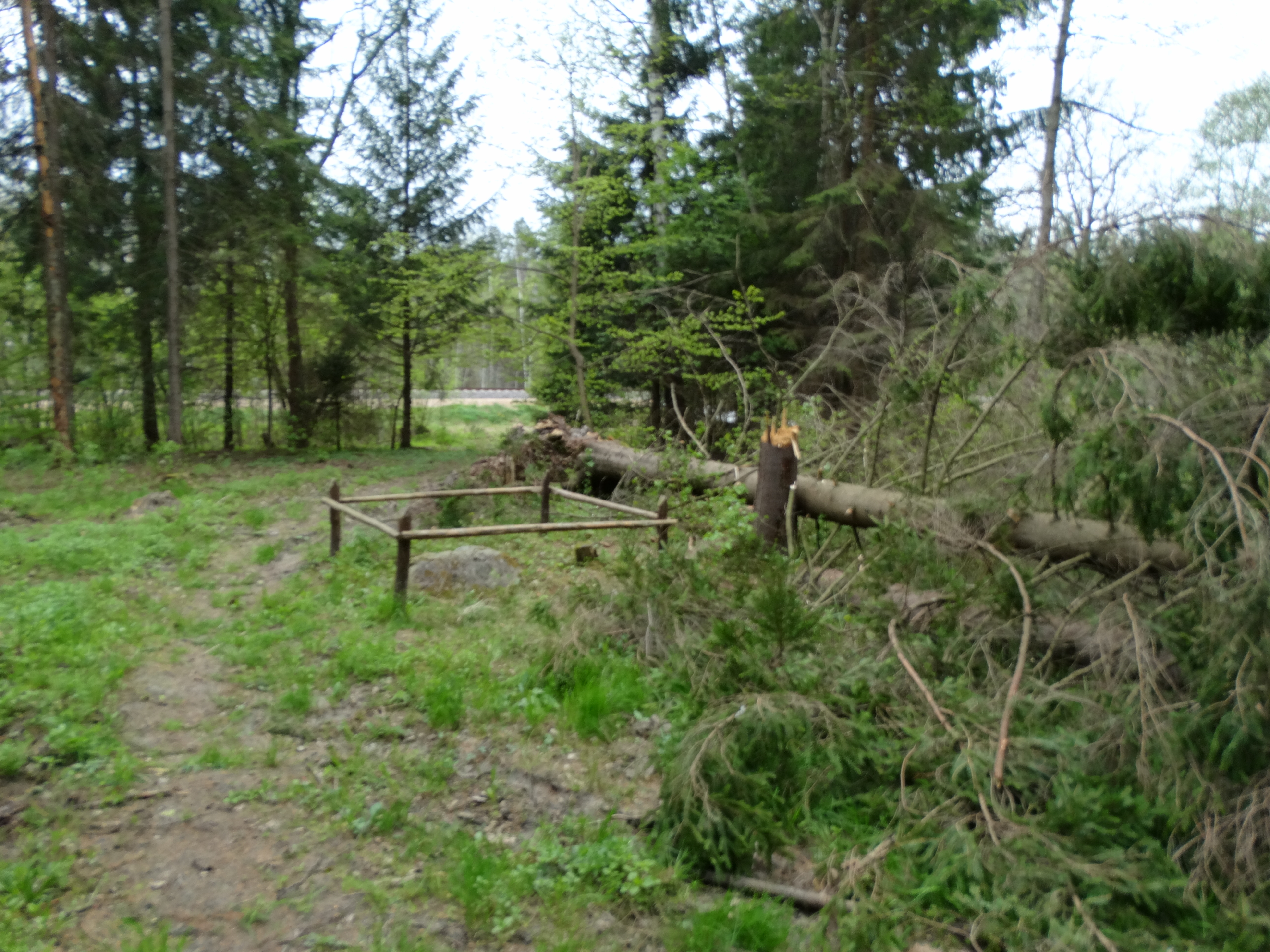 Bear's Stone, Daukliūnai, Jonava District, Lithuania